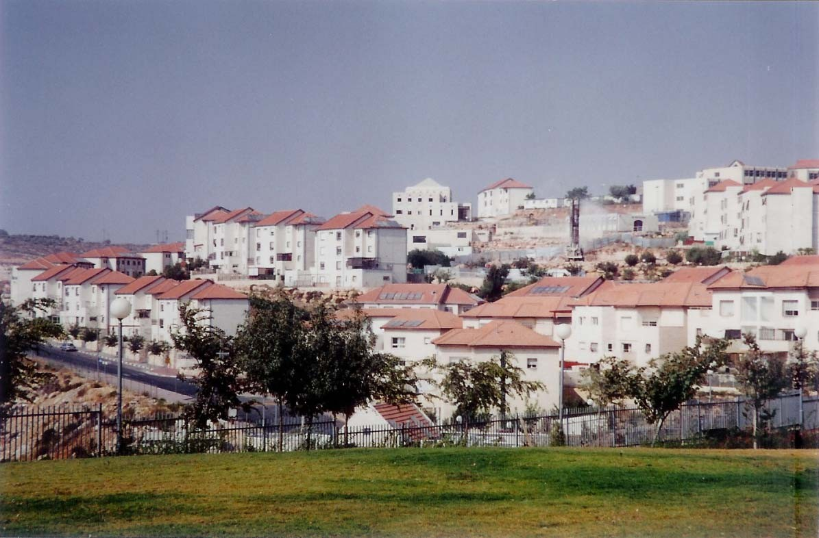 View of Beitar Ilit, Israel